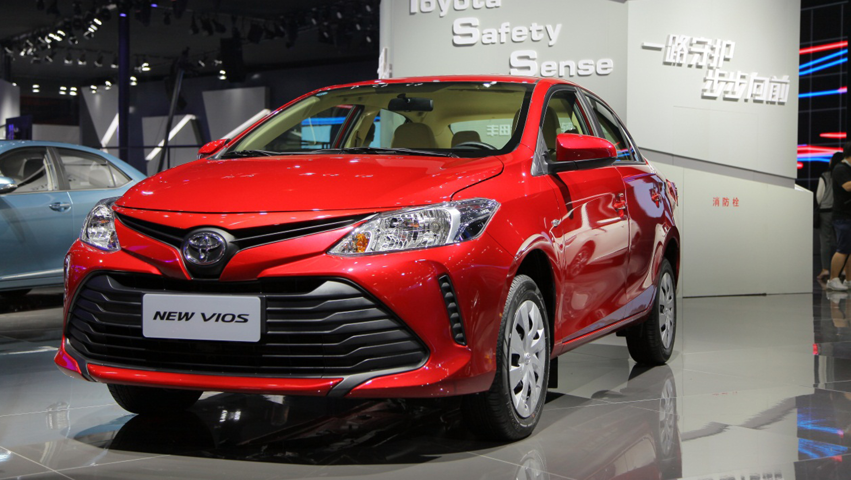 Vios facelift front view.